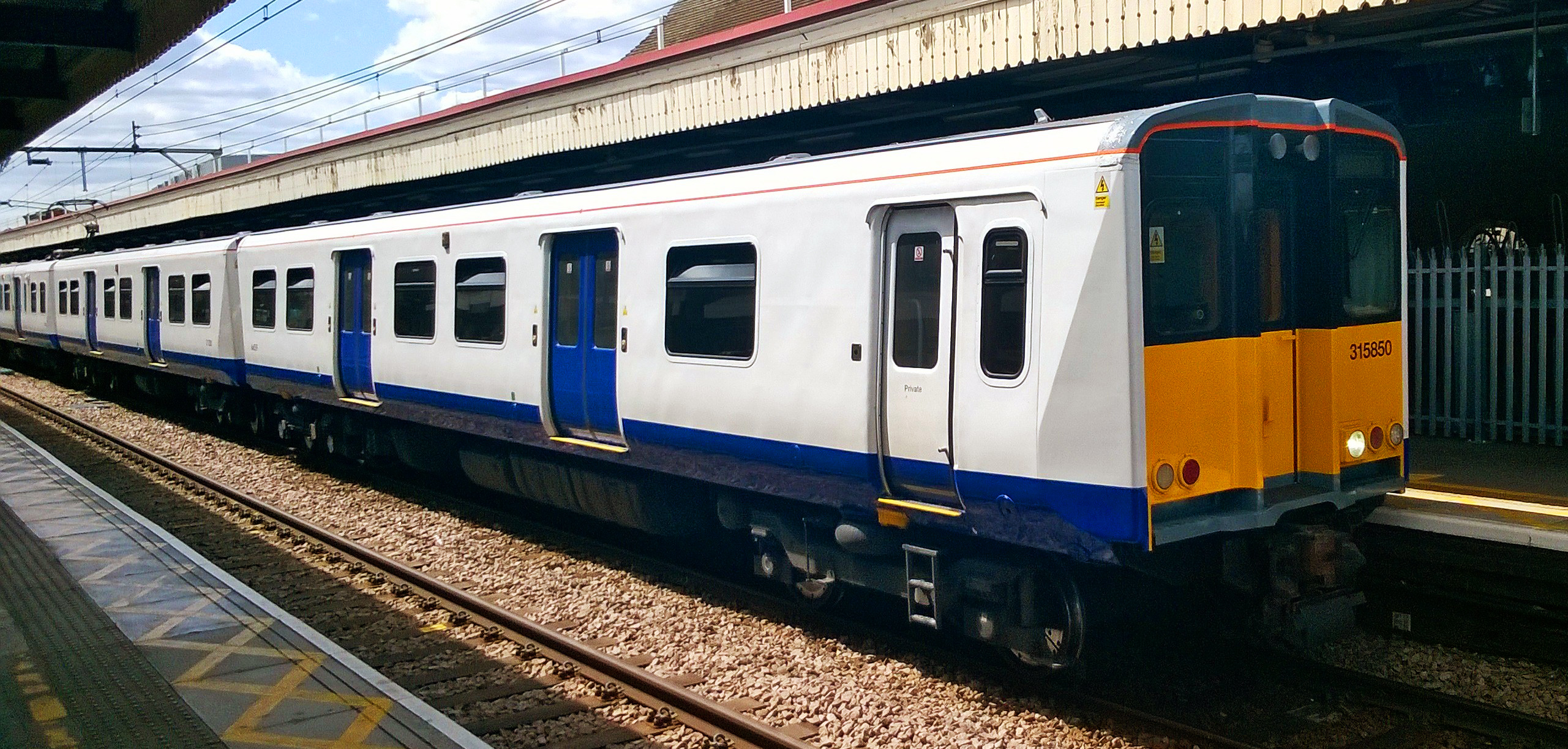 Unit 315850 at Romford railway station